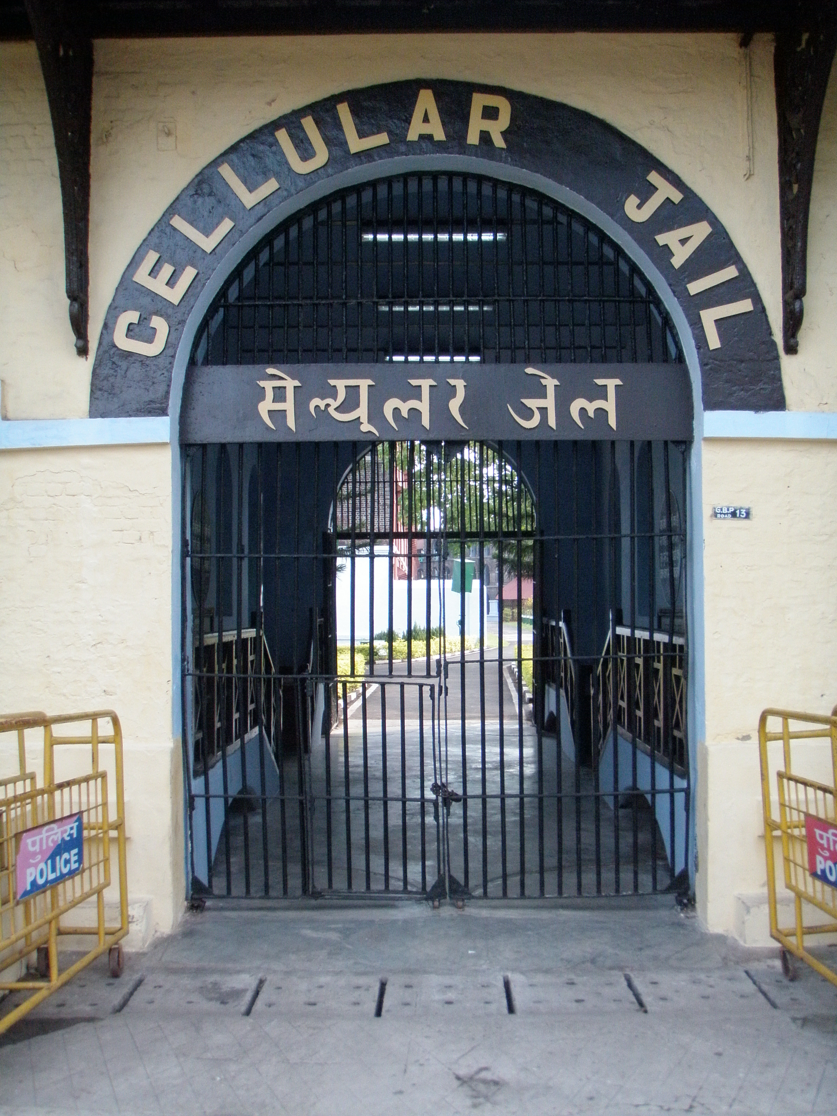 The Andaman Cellular Jail was the shadiest prison of the British rule in India. Now it is national memorial and tourist attraction at Port Blair, Andaman.